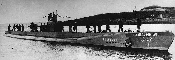 Turkish submarine Ikindji-In-Uni (modern Turkish: İkinci İnönü)